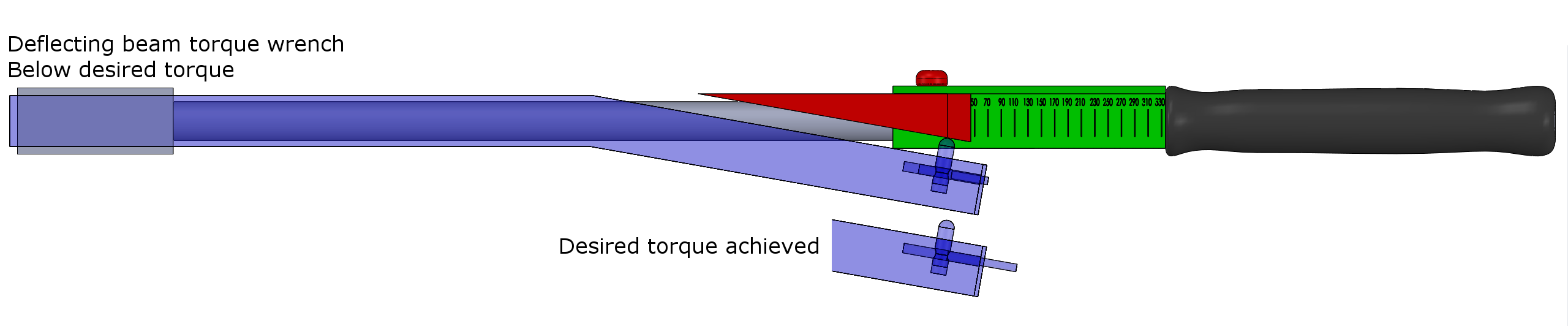 A basic view of the layout of a deflecting beam type torque wrench. This particular type is best known as the type invented by the Australian Warren and Brown company. In essence it is a simple beam type torque wrench, however the non deflecting beam is angled and fitted with a captive pin and trigger mechanism. The deflecting beam is fitted with a graduated scale and wedge which is adjusted to the desired torque. Once the torque is met the wedge pushes the pin trigger and this leads to the pin being sprung out of the beam with an audible click.